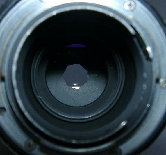 Lens with aperture